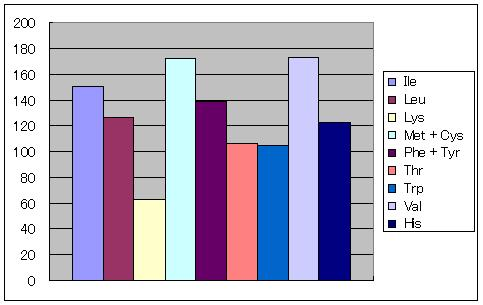 Amino acid score of white rice